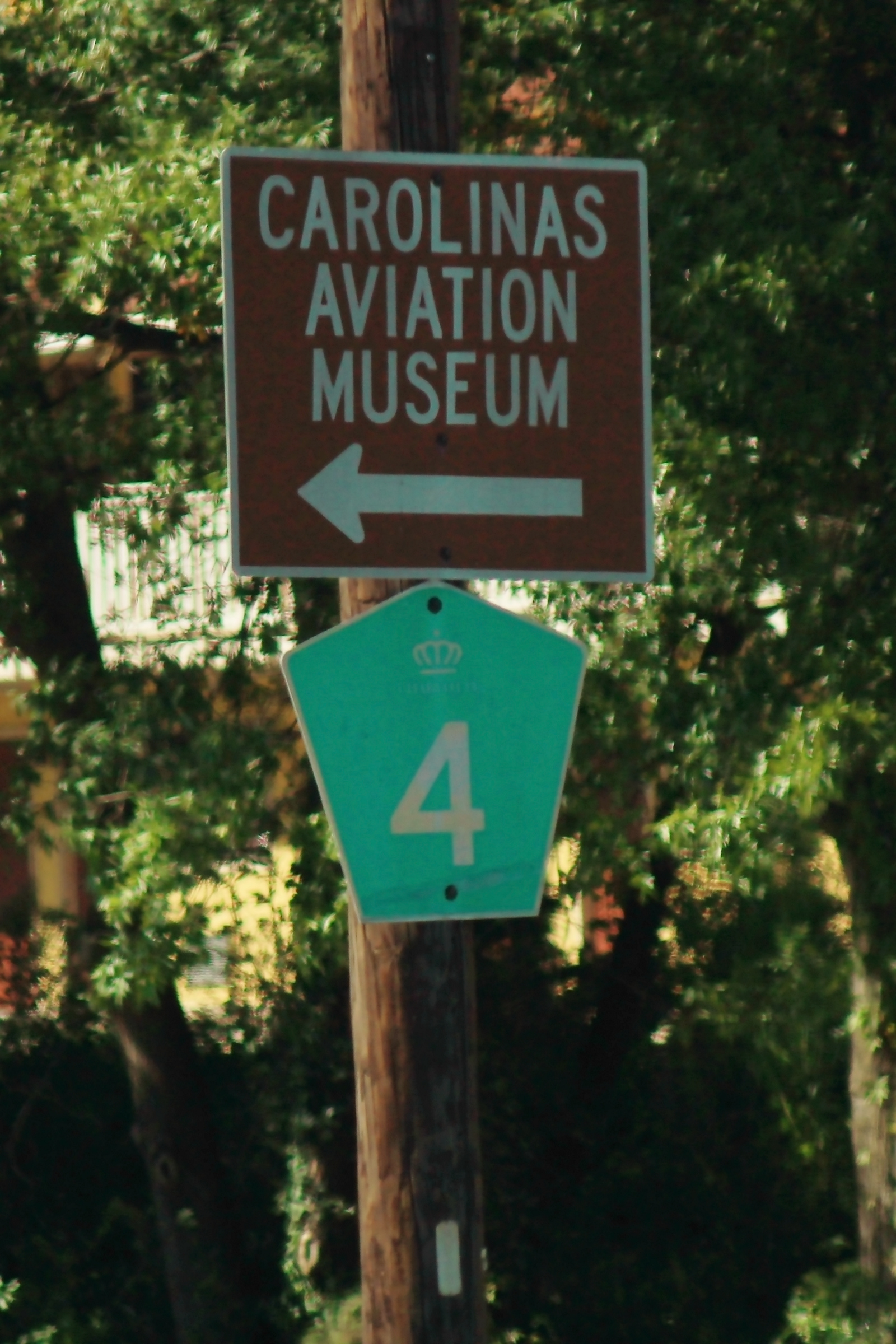 Charlotte City Route 4 - a unique appellation - the other city routes are not signed.